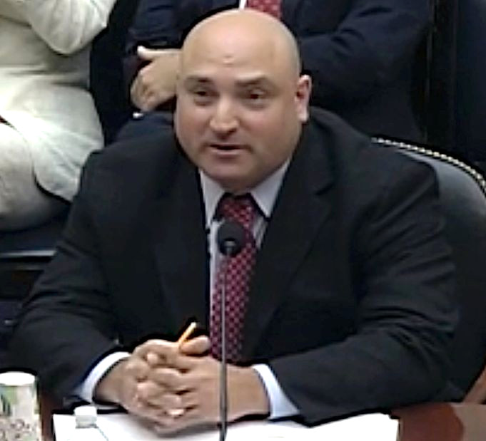 American military affairs commentator Bill Roggio speaks in front of the House Foreign Affairs Subcommittee on funding to Pakistan in 2016.